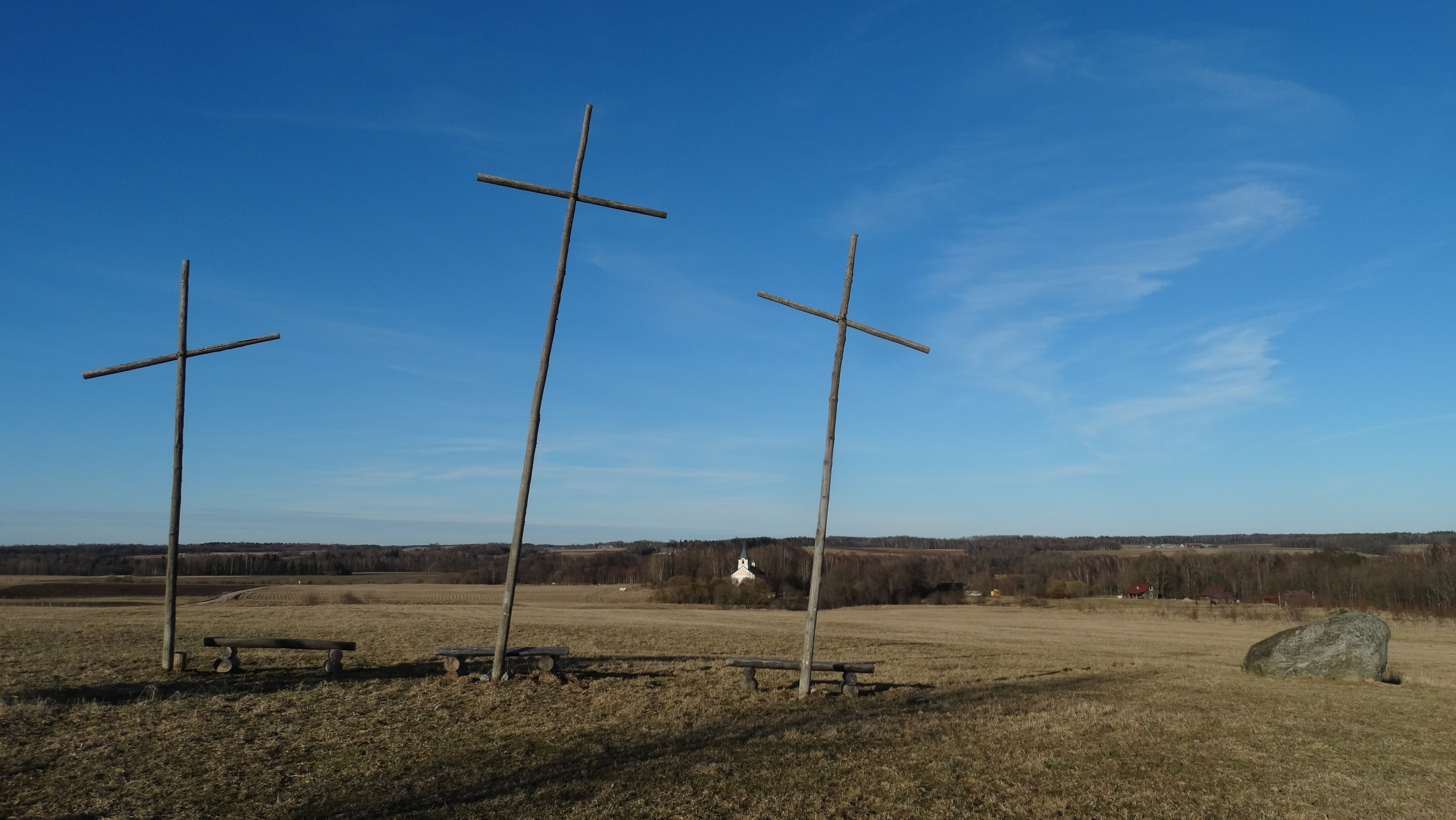 Crosses in Pakutuvėnai, Plungė District, Lithuania